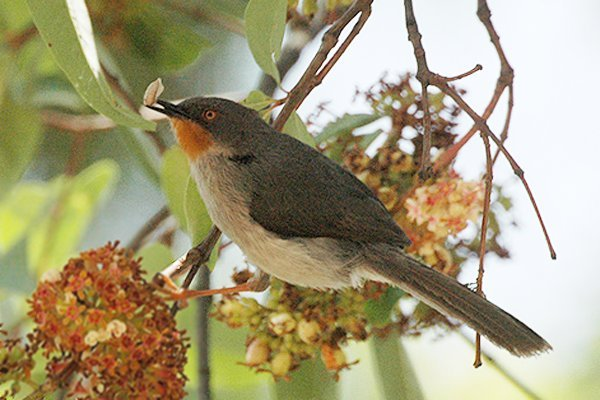 Uganda Chestnut-throated Apalis (Apalis porphyrolaema) Ruhija, Bwindi NP Jan 2005